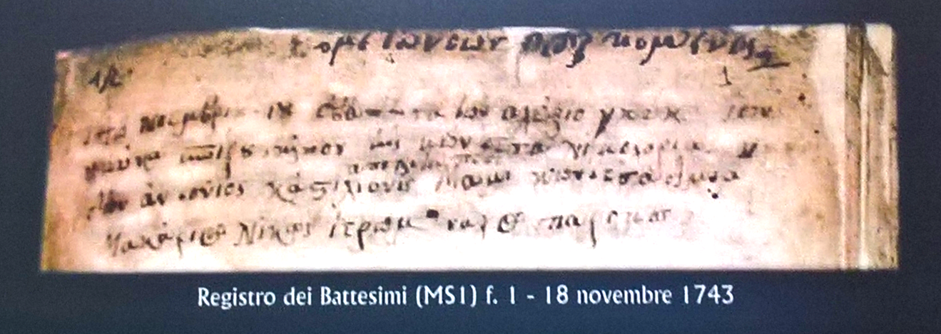 Church book excerpt in Greek - Birth of Alessio Ngjka (Gica) on November 18, 1743